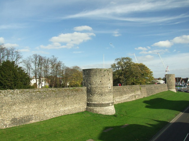 Canterbury town walls